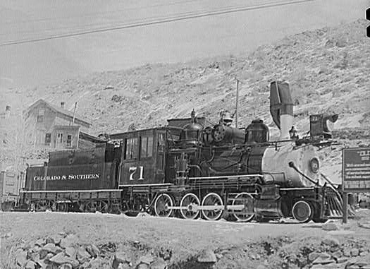 The Old 71 engine of the Colorado and Southern Railroad, which carried ore and passenger cars from Denver to "the richest square mile on earth."